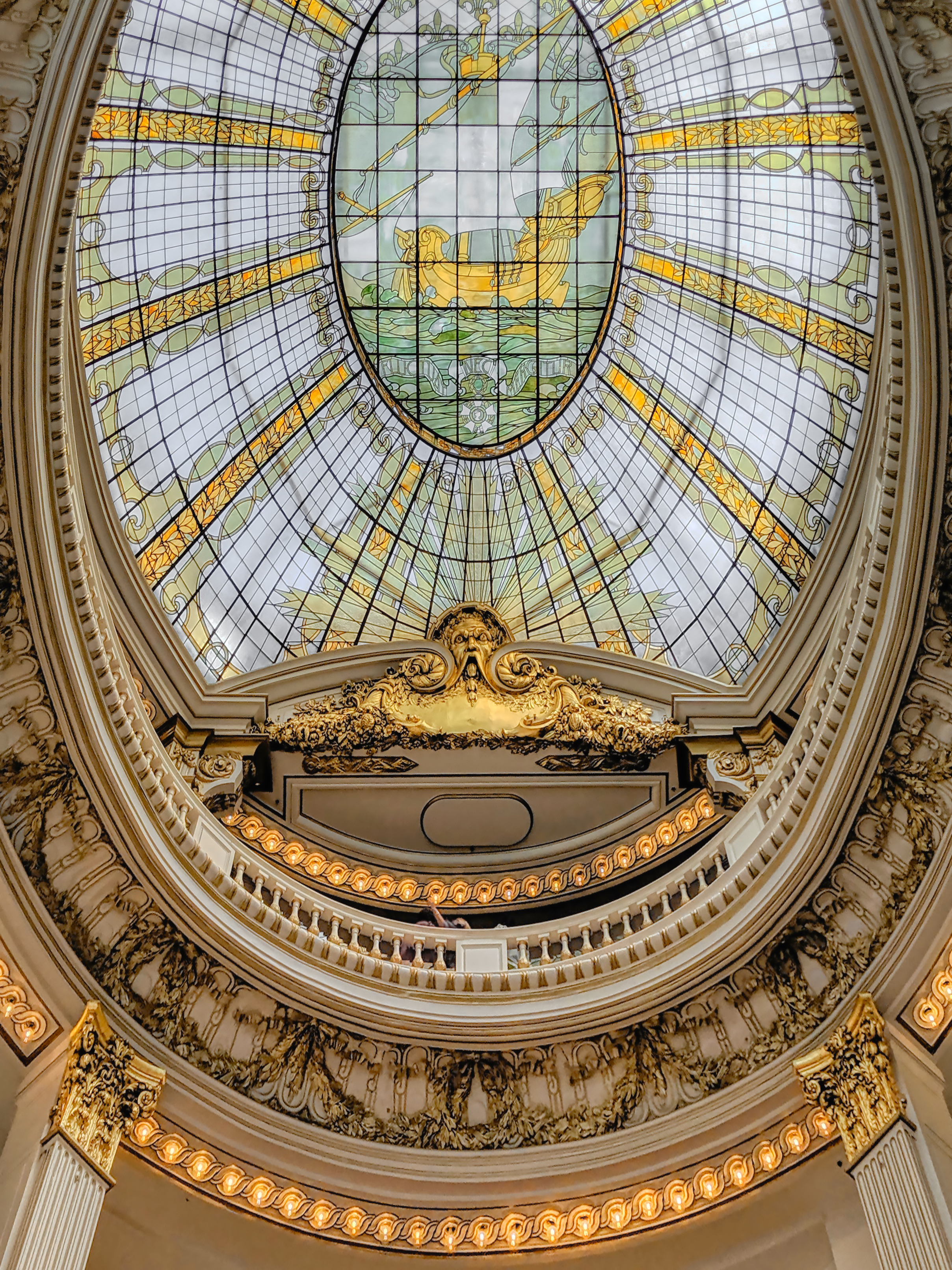 City of Paris building ceiling